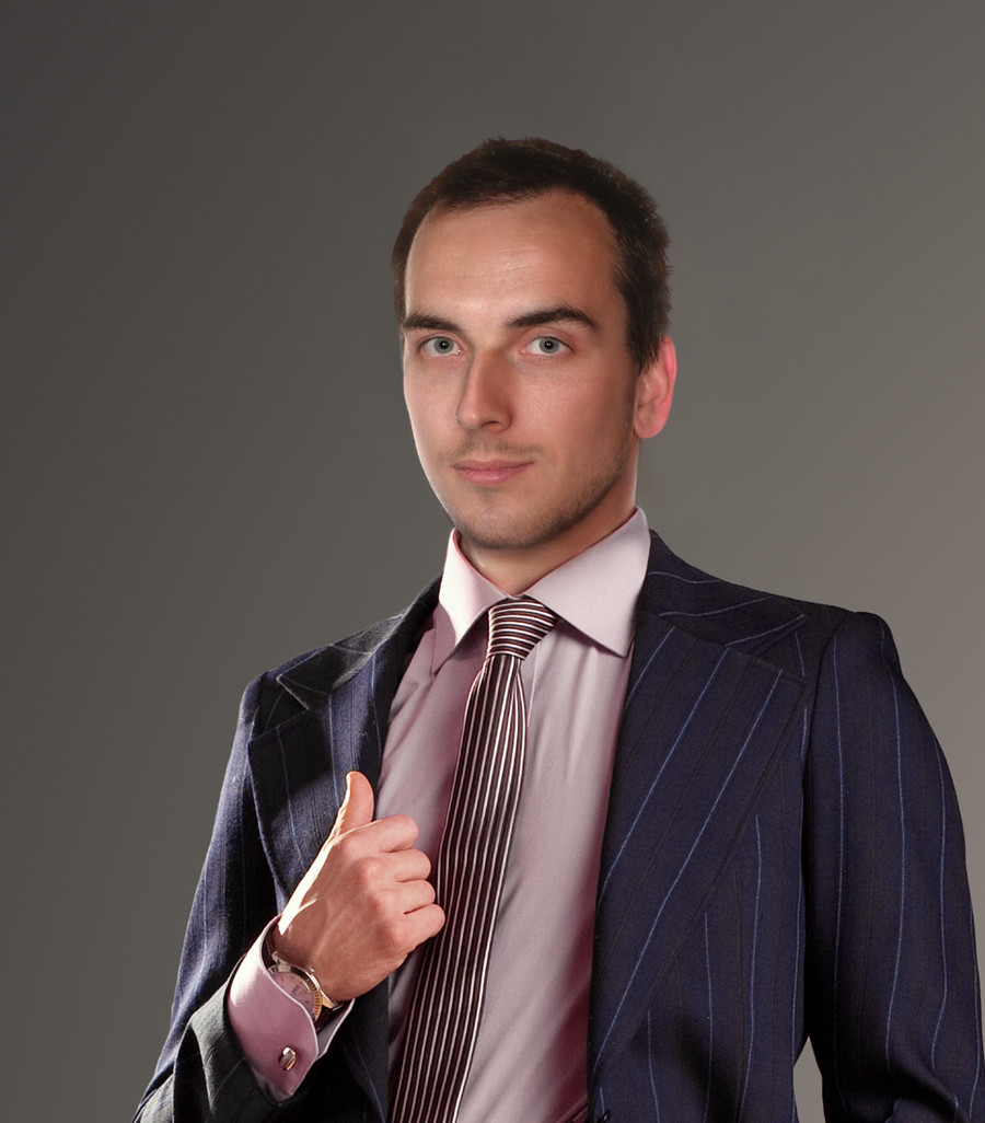 This is my own work and any can reproduce it in any form.